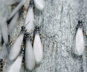 Termite alates in spring, Hemingway, South Carolina